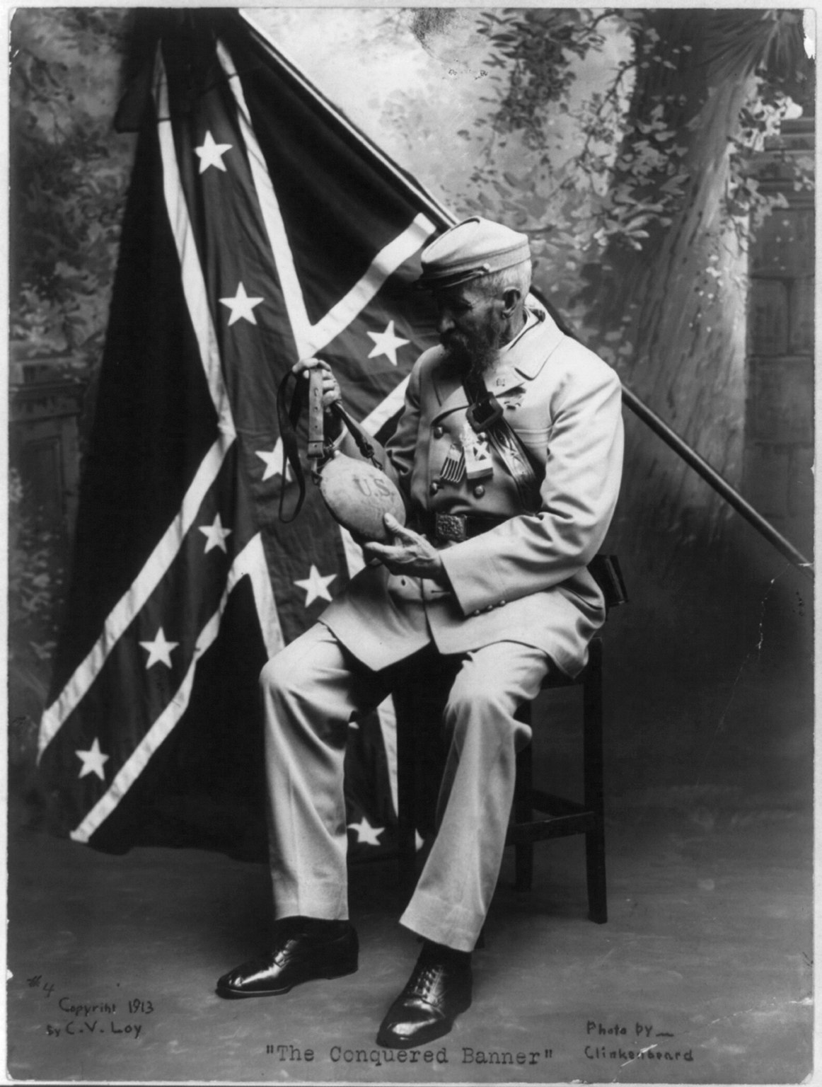 Title: The Conquered Banner Abstract/medium: 1 photographic print.